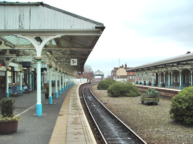 Selby Railway Station Looking North